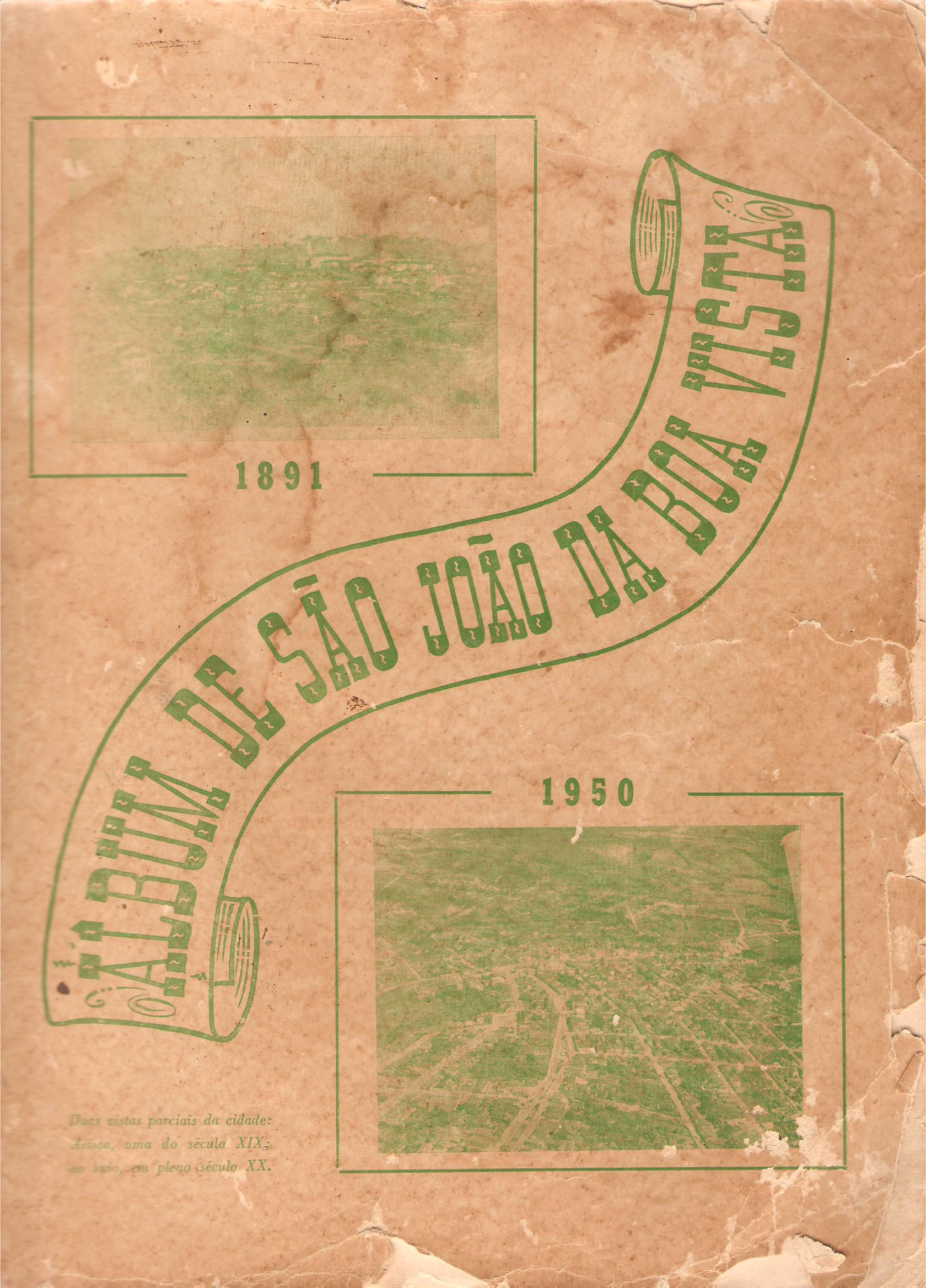 Photo Album of São João da Boa Vista City - SP. Years of 1891 to 1950.